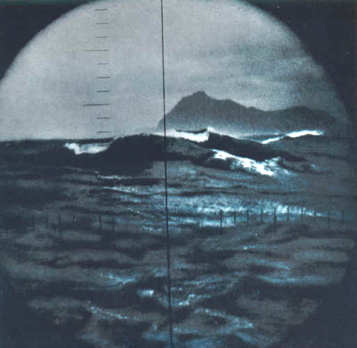 Image of Cape Hope, taken on 7 March 1960 onboard the USS Triton (SSRN-586)